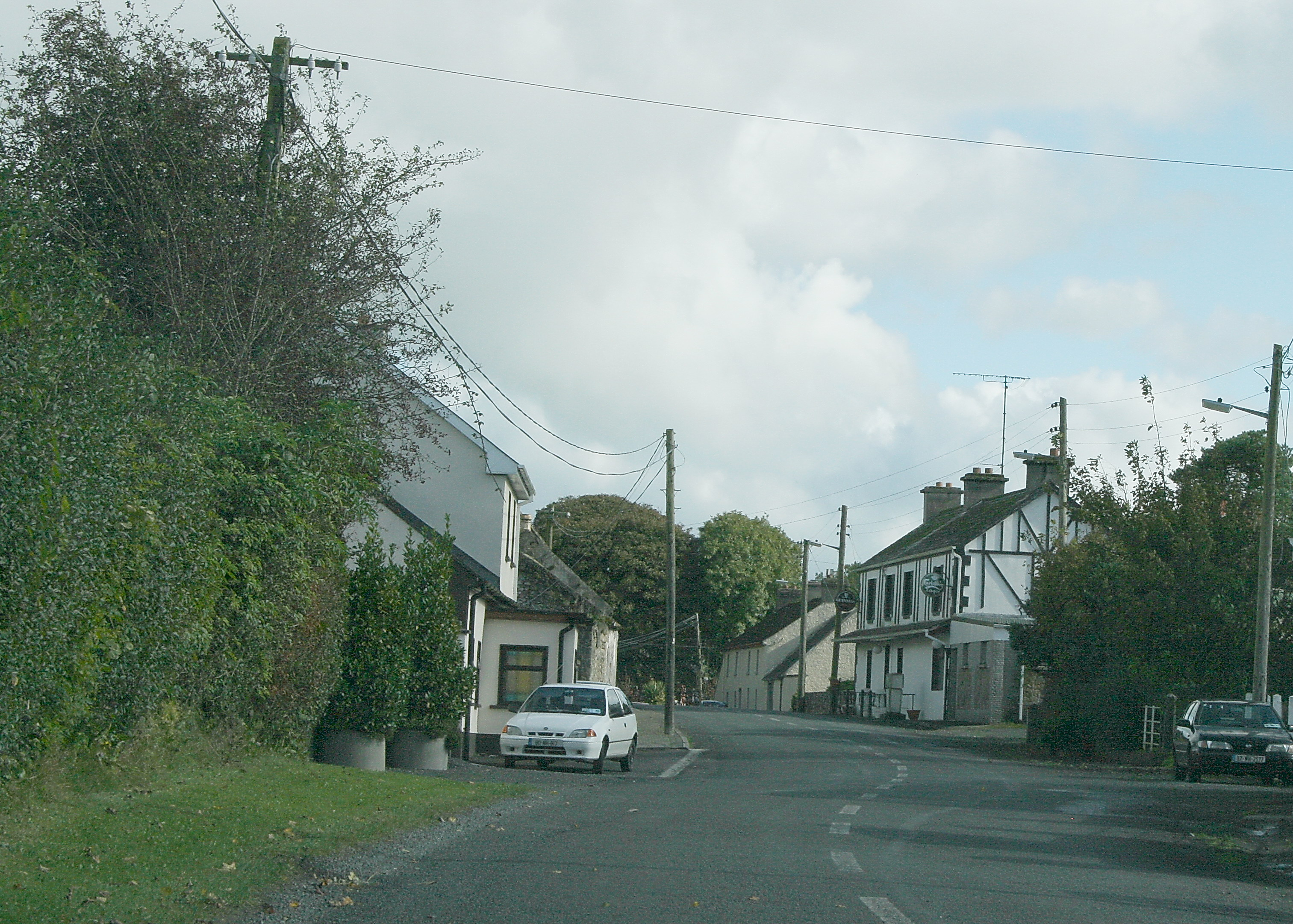 Taghshinny, County Longford (2), near to Taghshinny, Ireland. On the R399.